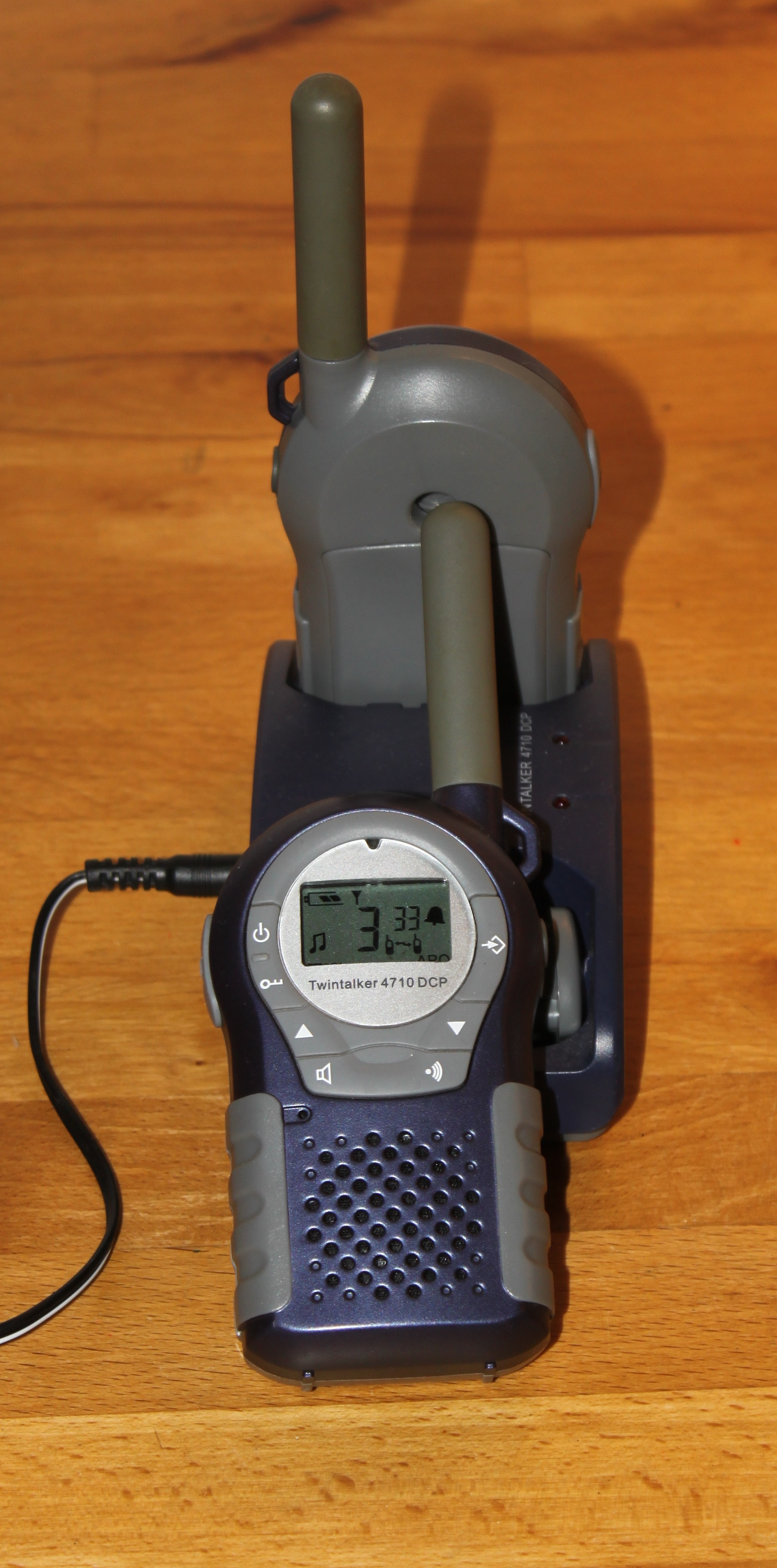 Walkie Talkie set Twintalker 4710 DCP with charging station